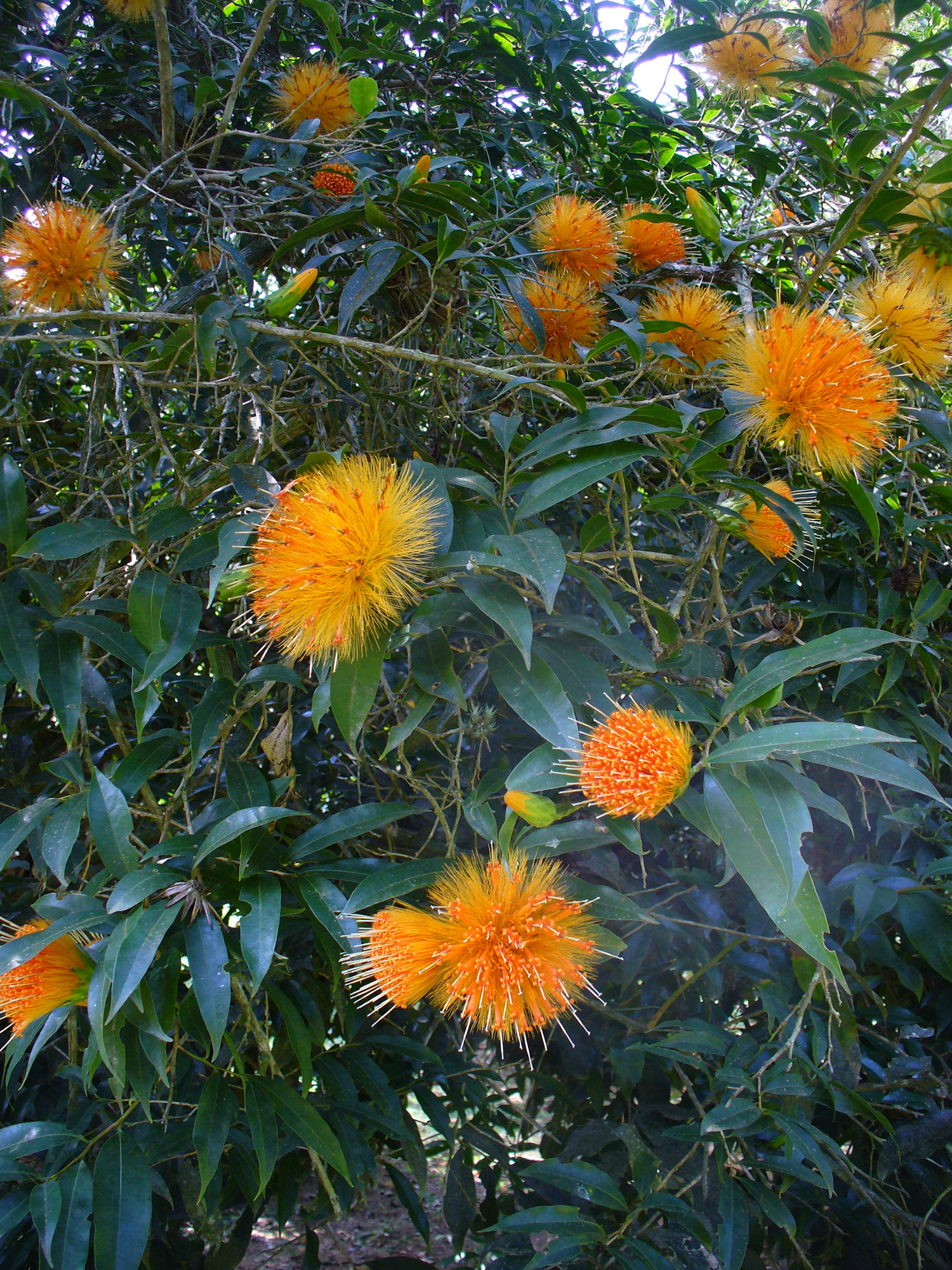 Stifftia chrysantha in Rio de Janeiro Botanical Garden, Brazil